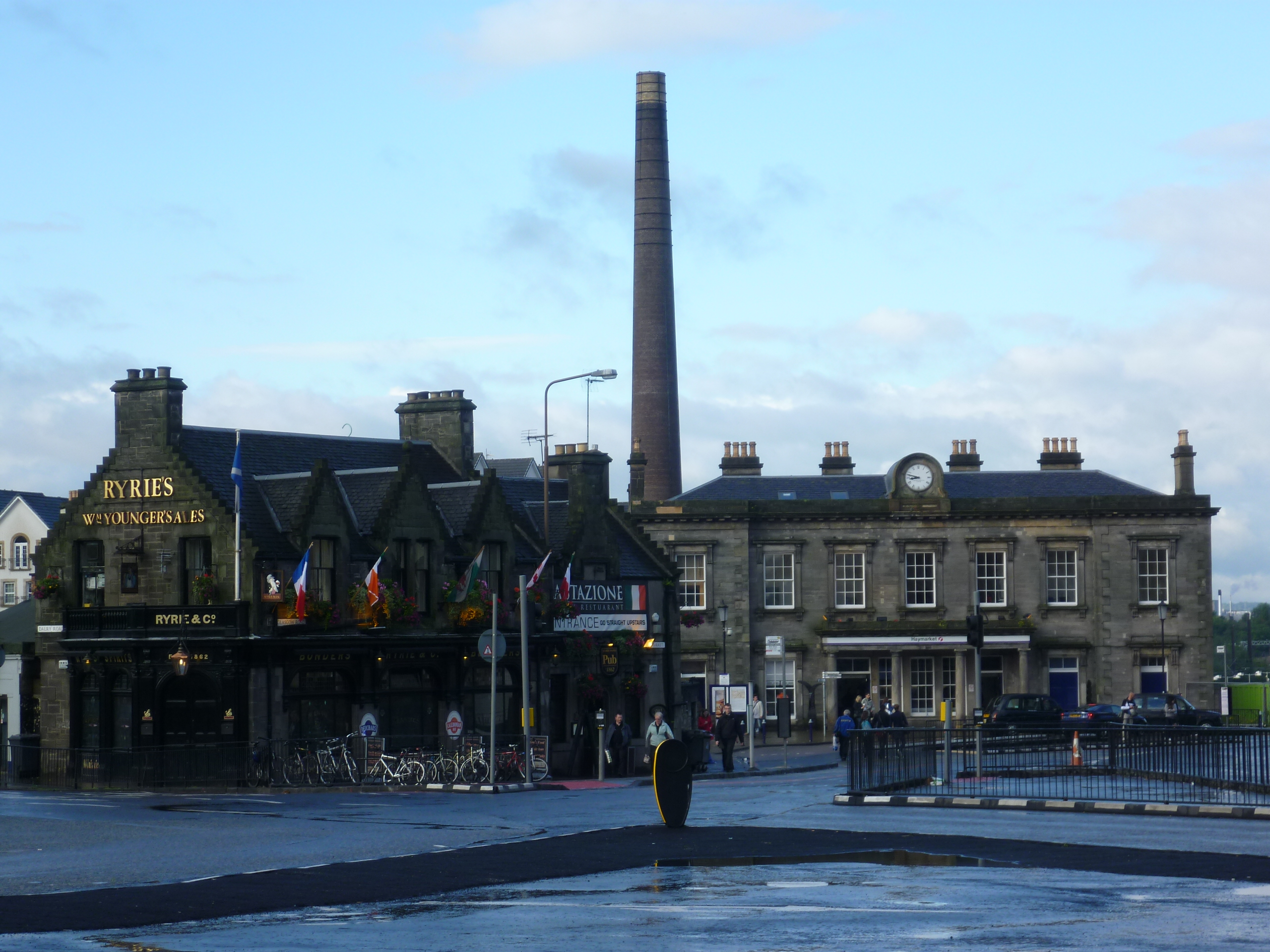 The war memorial to players of Heart of Midlothian F.C. has been removed to enable the laying of tracks for the new Edinburgh trams and will be replaced near to its original location when the work ends.